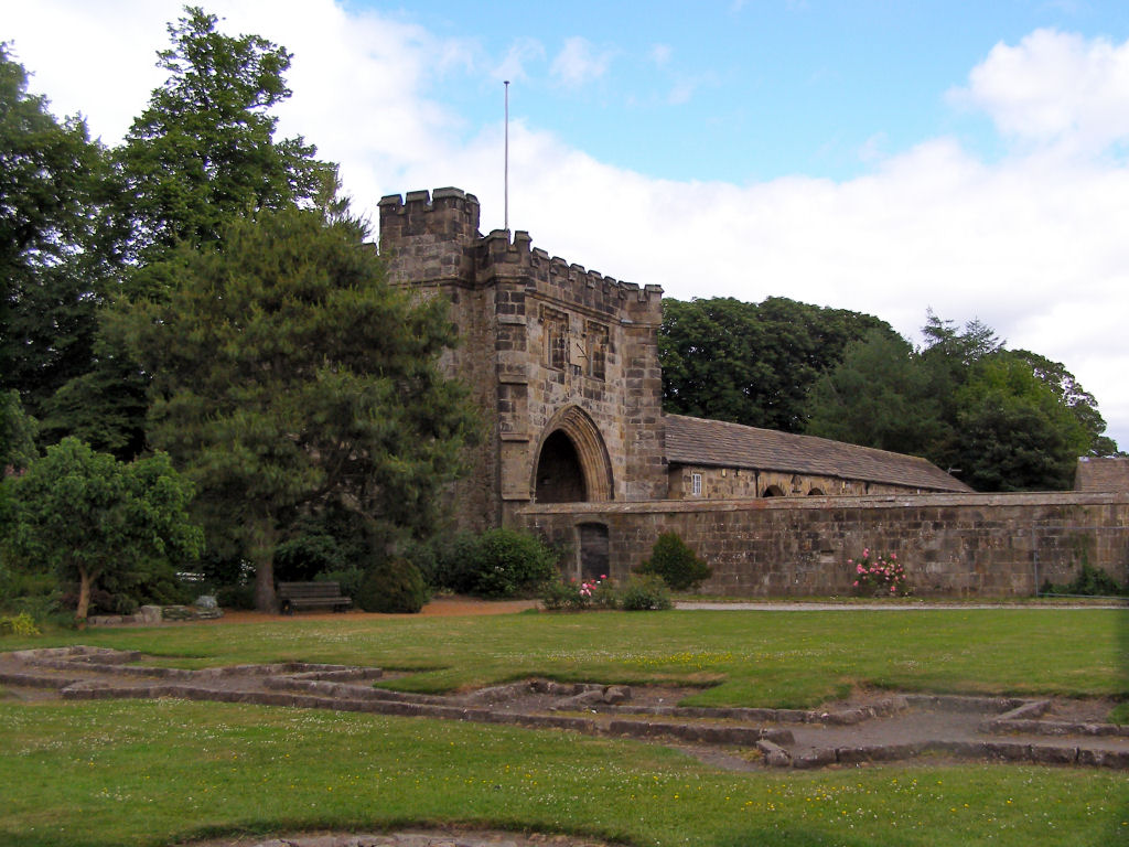 Whalley Abbey, near to Billington, Lancashire, Great Britain. The ruins of Whalley Abbey are a Grade I listed building and a Scheduled Ancient Monument. The site of the abbey was first consecrated in 1306 after the Cistercian monks from Stanlow Abbey had moved to Whalley. The church was completed in 1380 but the remainder of the abbey was not finished until the 1440s. The abbey closed in 1537 as part of Henry VIII�s dissolution of the monasteries. Following which, the abbey was largely demolished and a country house was built on the site. In the 20th century the house was modified and it is now the Retreat and Conference House of the Diocese of Blackburn. Today, only the foundations remain of the church. The remains of the former monastic buildings are more extensive. Link Official abbey web site Link Wikipedia article See other images of Whalley Abbey